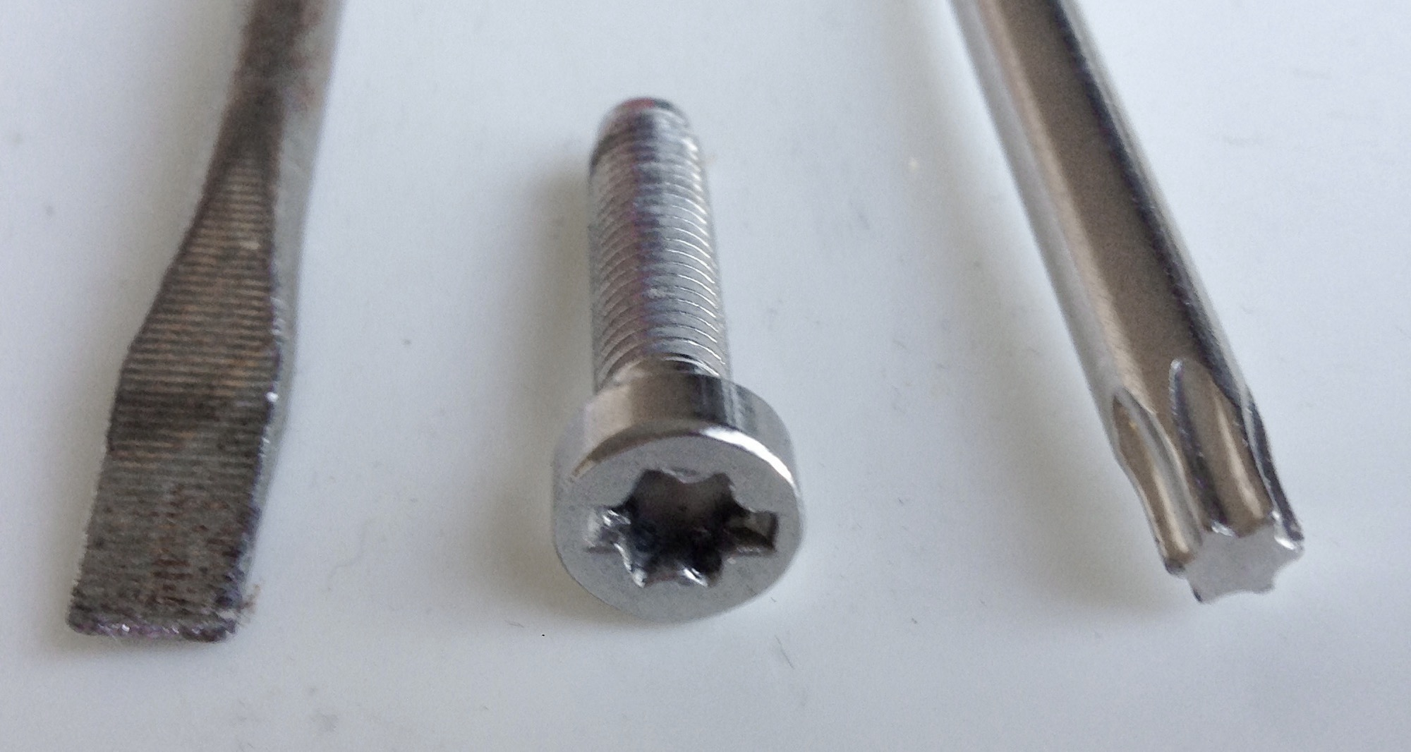 A TORX T25/slot Dual Drive screw, with a 3/16-inch flat-blade screwdriver on the left, and a T25 screwdriver on the right. Both screwdrivers can drive this screw, by design.